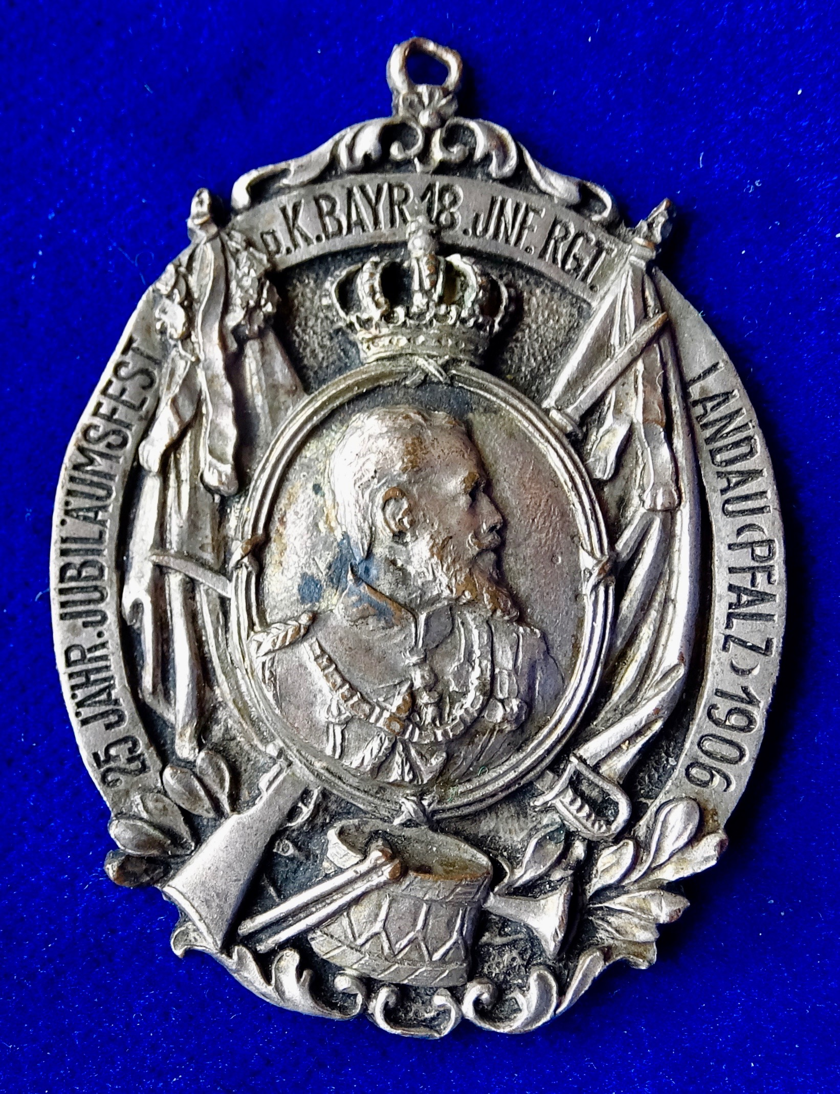 Medal Prince Ludwig Ferdinand of Bavaria 1906 Landau Pfalz 25th Anniversary of his Regiment. Silvered metal 37 x 48 mm. Ludwig Ferdinand, Prince of Bavaria, 1859 Madrid, Spain - 1949 Munich, Germany Crowned portrait r. between flags and arms, around: "25 JÄHR. JUBILÄUMSFEST K. BAYR. 18. INF. RGT. LANDAU (PFALZ) 1906".